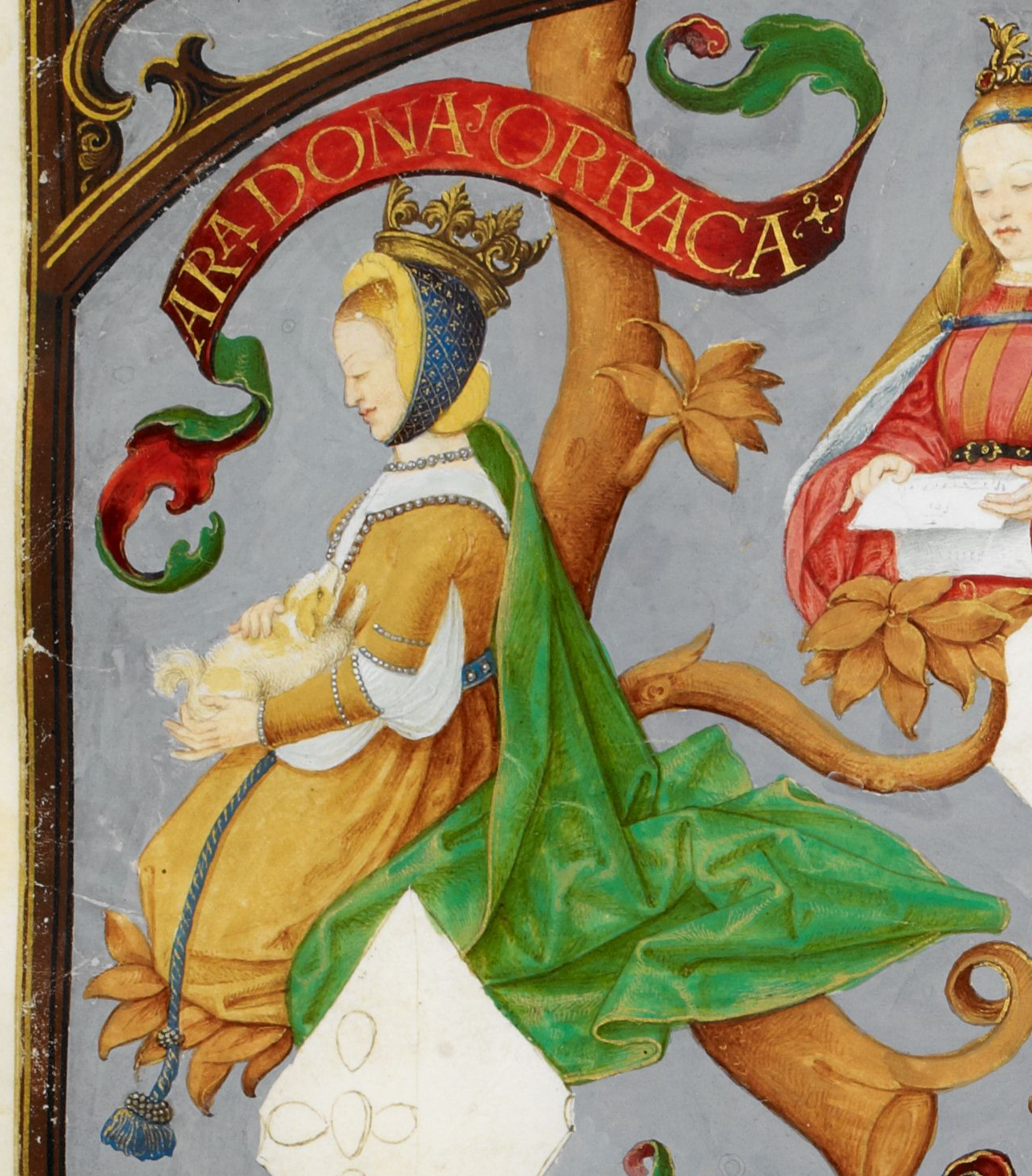 D. Urraca of Castile (1186-1220), queen consort of Portugal through her marriage to King Alfonso II.